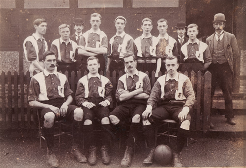 English Civil Service F.C.'s association football squad of 1893.